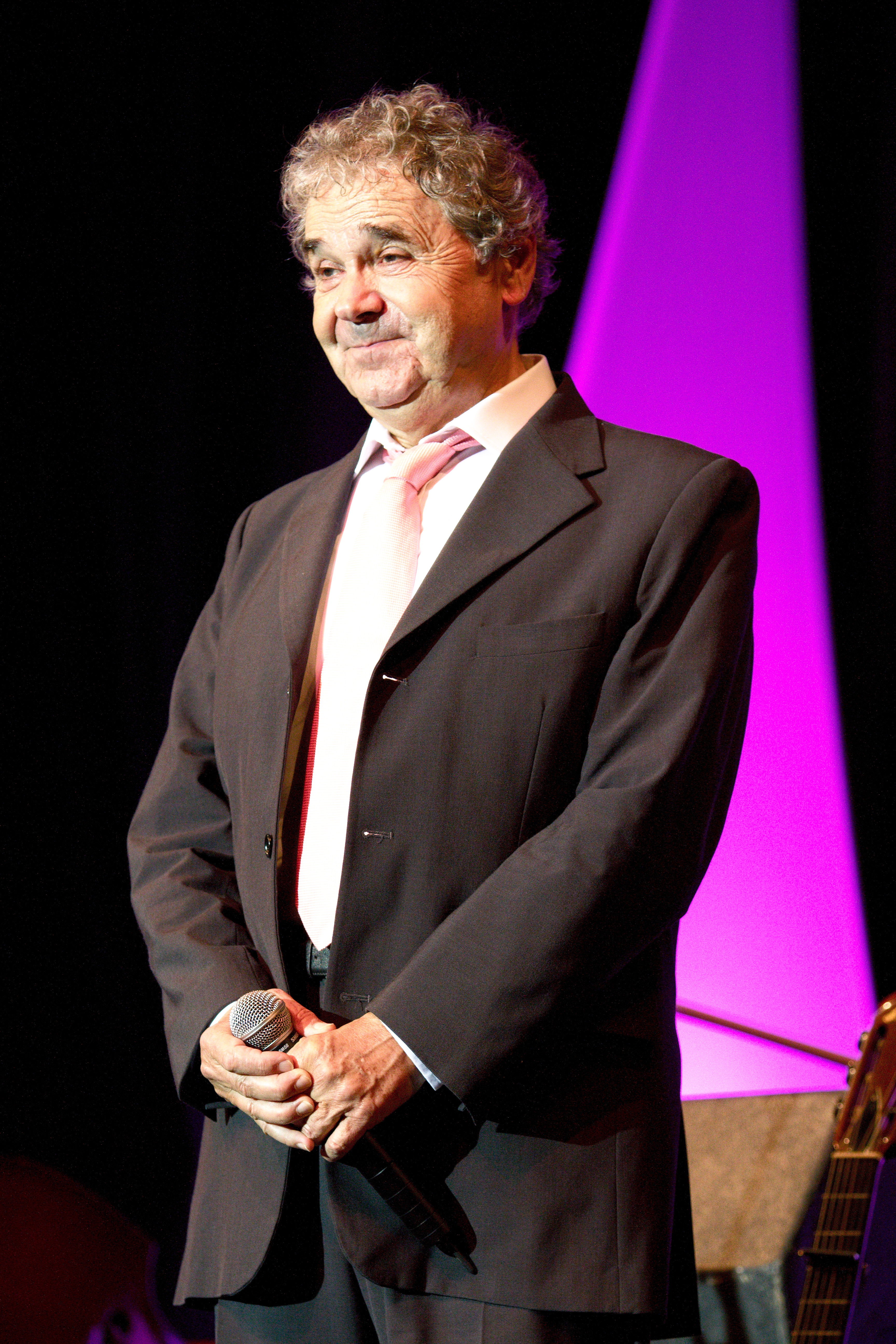 Pierre Perret live during the French song festival 2010 in Aix-en-Provence (France).